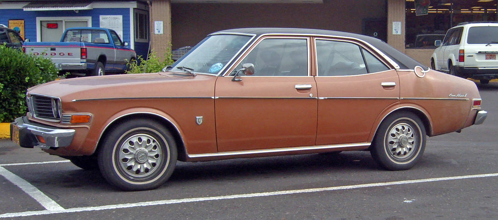 1976 MX10-series Toyota Corona Mark II in Oregon, USA